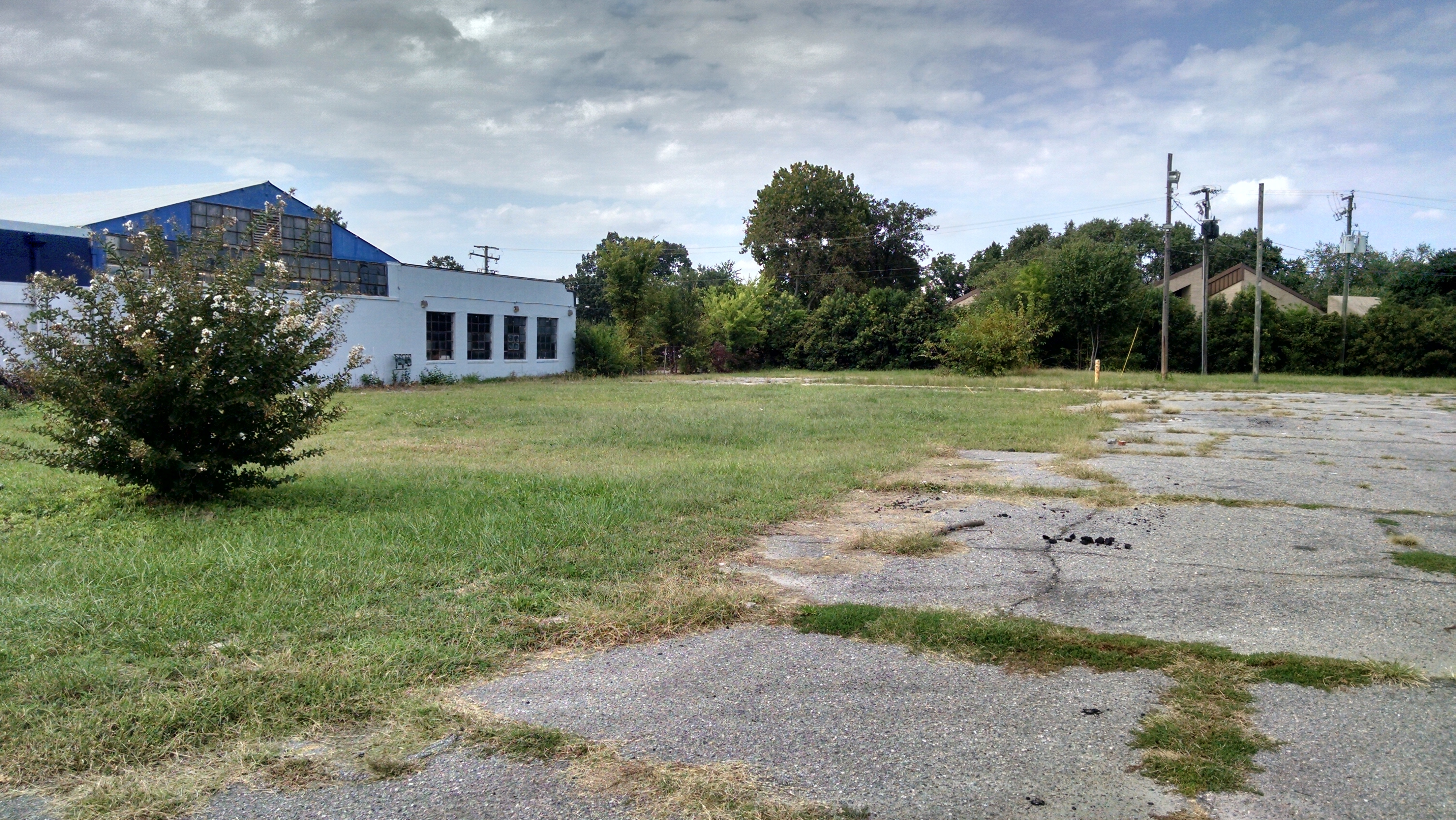 Former site of The Circle, 3010 High St. Portsmouth Building was demolished in 2013.